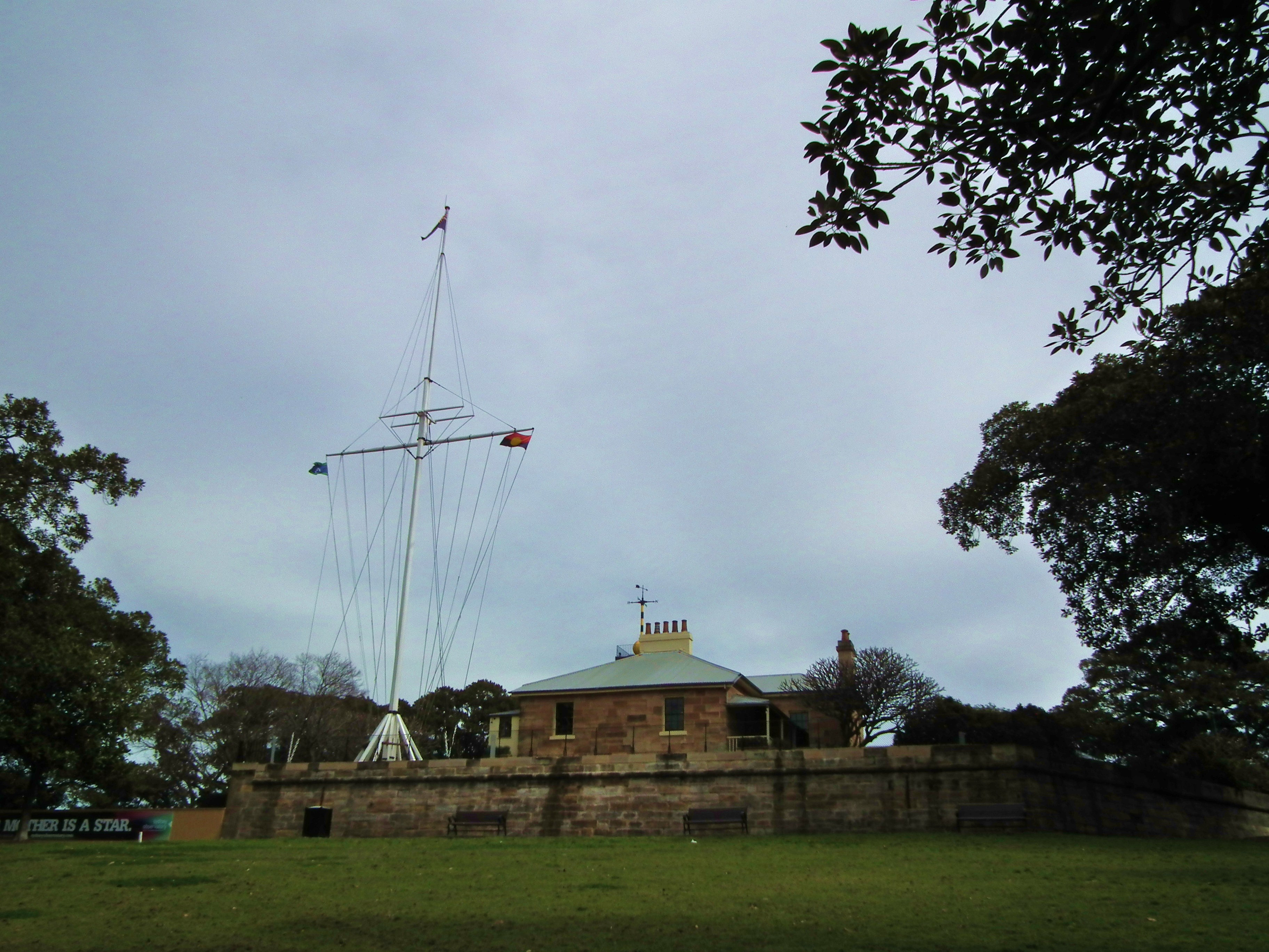 Sydney Observatory Signal Station - Sydney, New South Wales. This is the Signal Master's Cottage, built 1848.